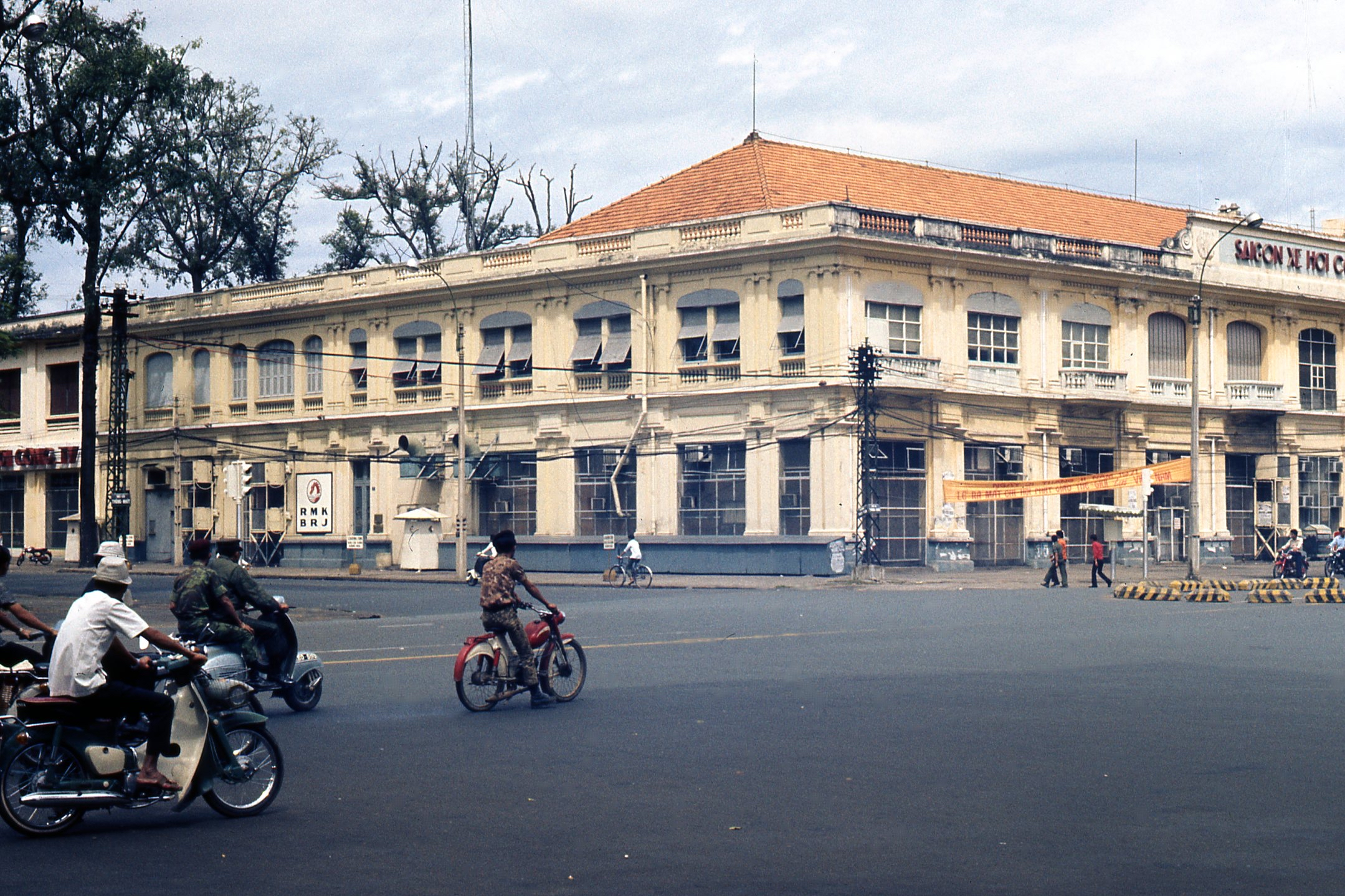 Headquarters of the American construction company RMK-BRJ at 2 Duy Tân (now Phạm Ngọc Thạch Street), District 1, Saigon, RVN, January 1972